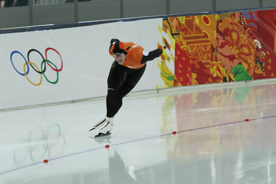 Men's 5000m, 2014 Winter Olympics, Jan Blokhuijsen Silver medalist